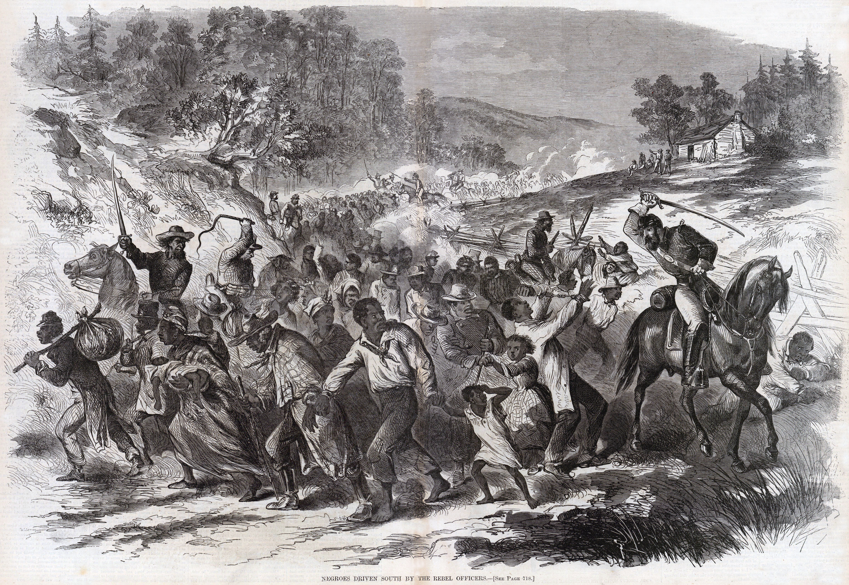 Harper's Weekly Magazine, November 8, 1862, pp. 712-713., p. 16..